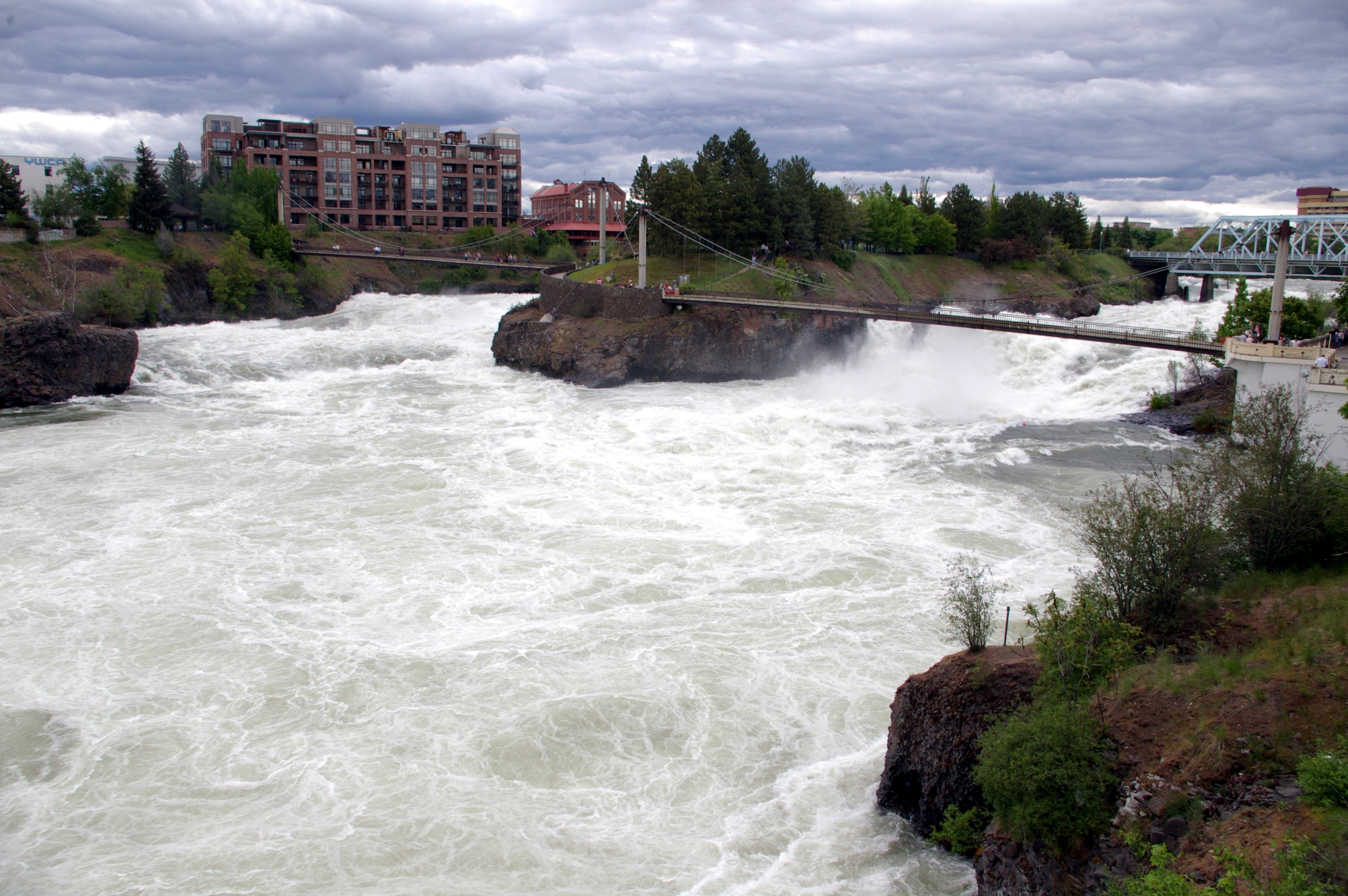 The Upper Falls of the Spokane River during the spring flood of 2008.